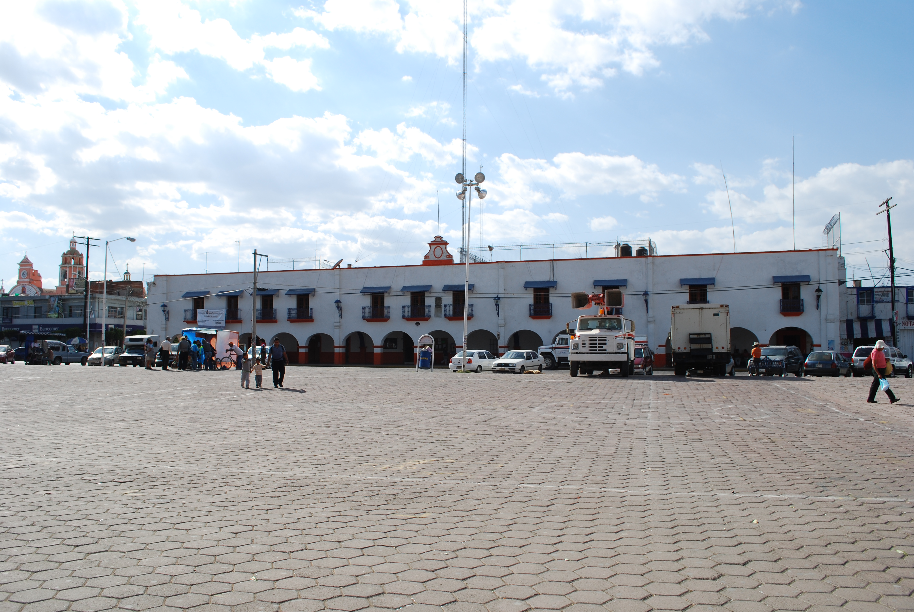 Municipal Palace of Huejotzingo, Puebla, Mexico